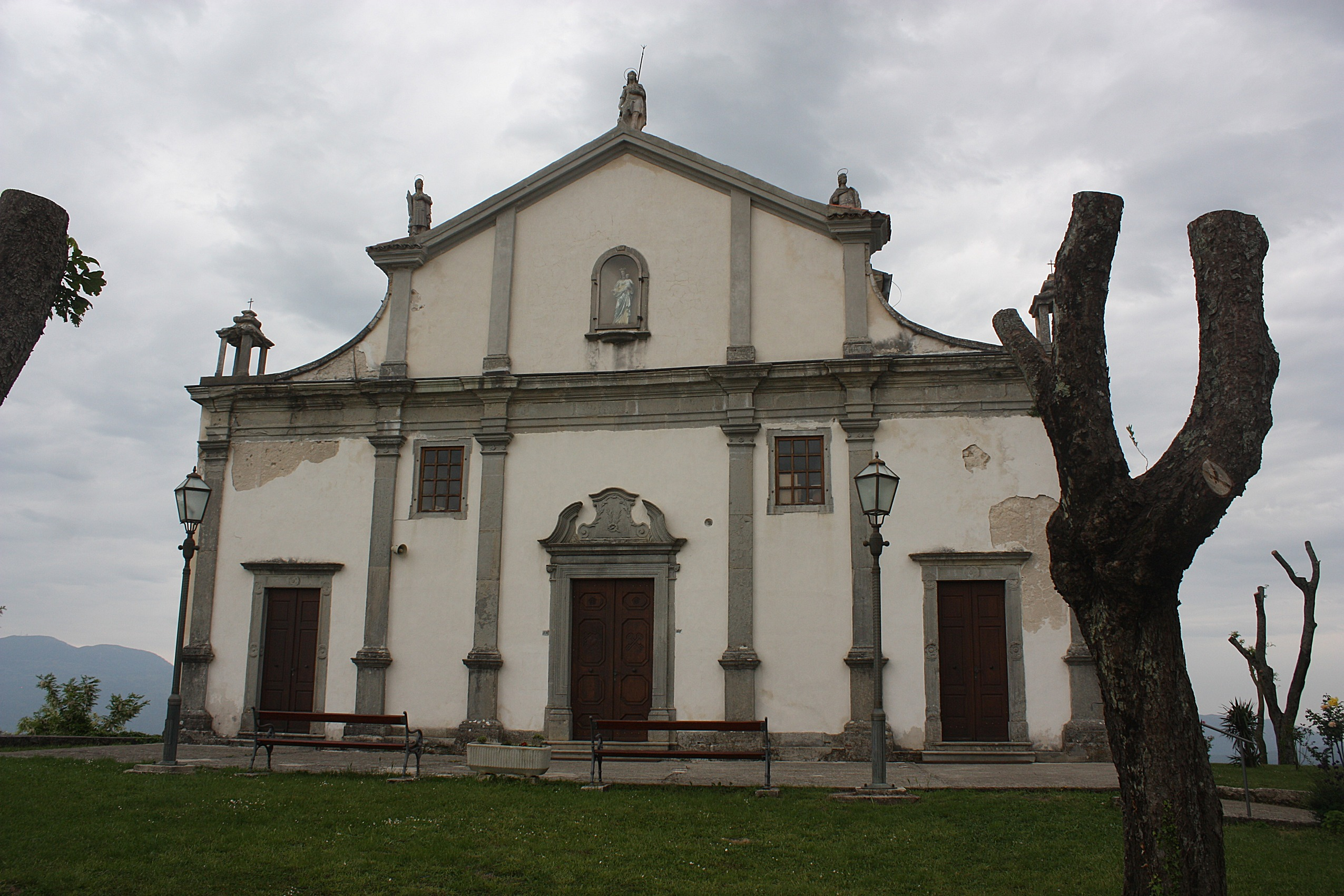 Gračišće, the St.Vitus Church